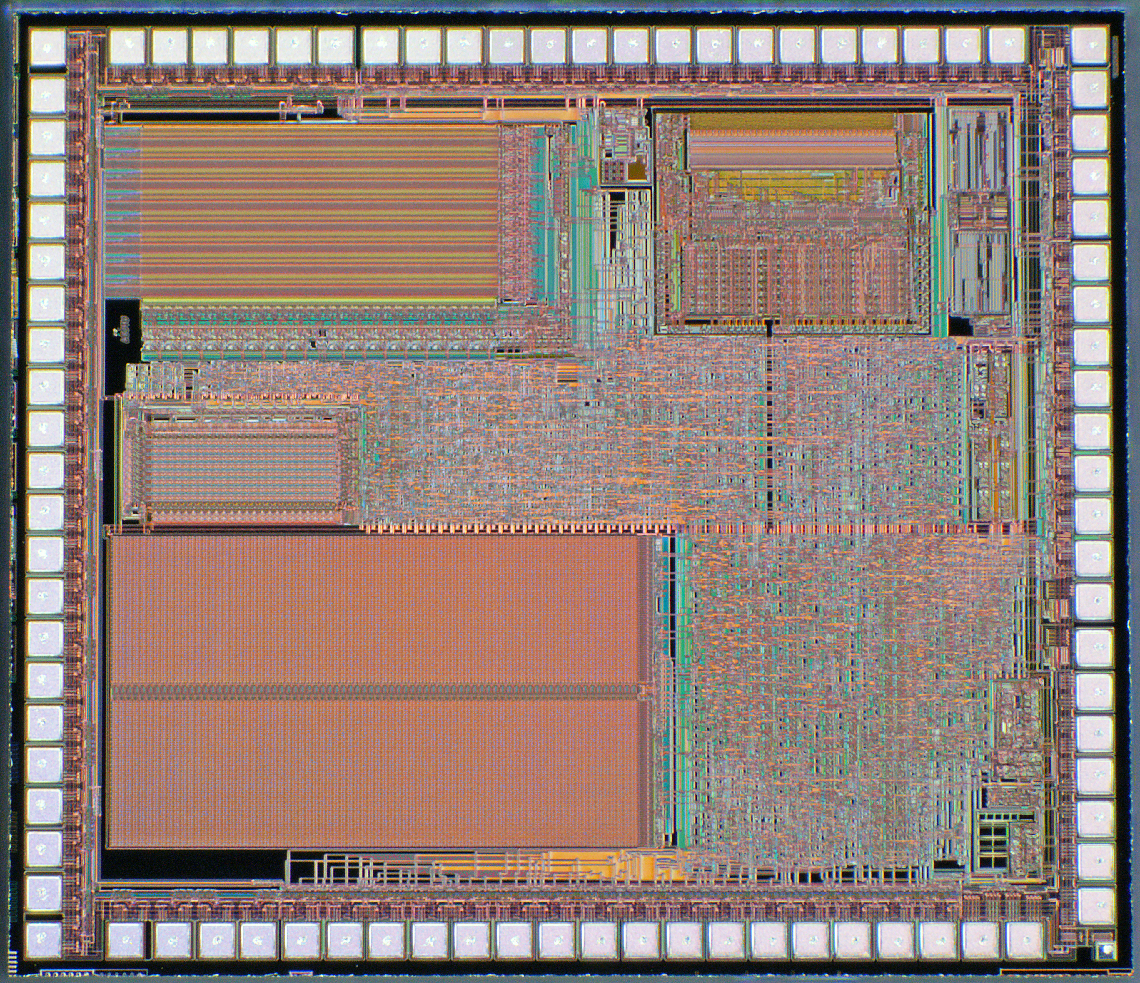 Sitronix ST2064B microcontroller silicon die